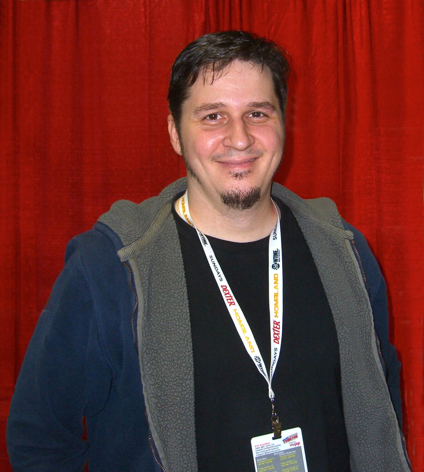 Comics creator Ed McGuinness on Day 2 of the 2012 New York Comic Con, Friday October 12, 2012 at the Jacob K. Javits Convention Center in Manhattan. This photo was created by Luigi Novi. It is not in the public domain, and use of this file outside of the licensing terms is a copyright violation.